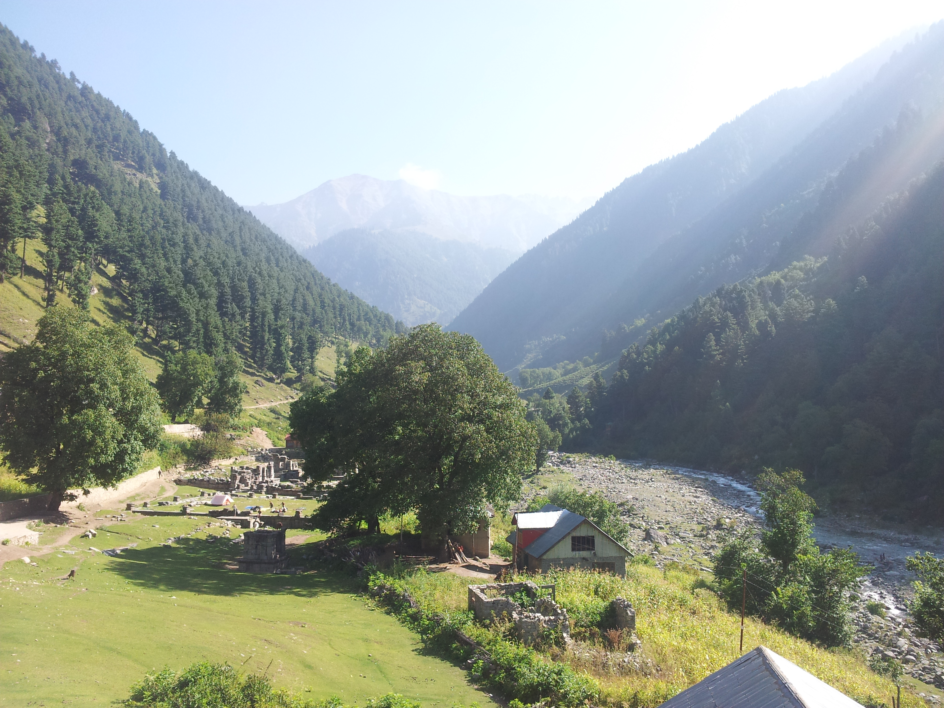 Naranag, base camp for trekking to the alpine lakes of Gangabal, Nundkol, Satsar etc.